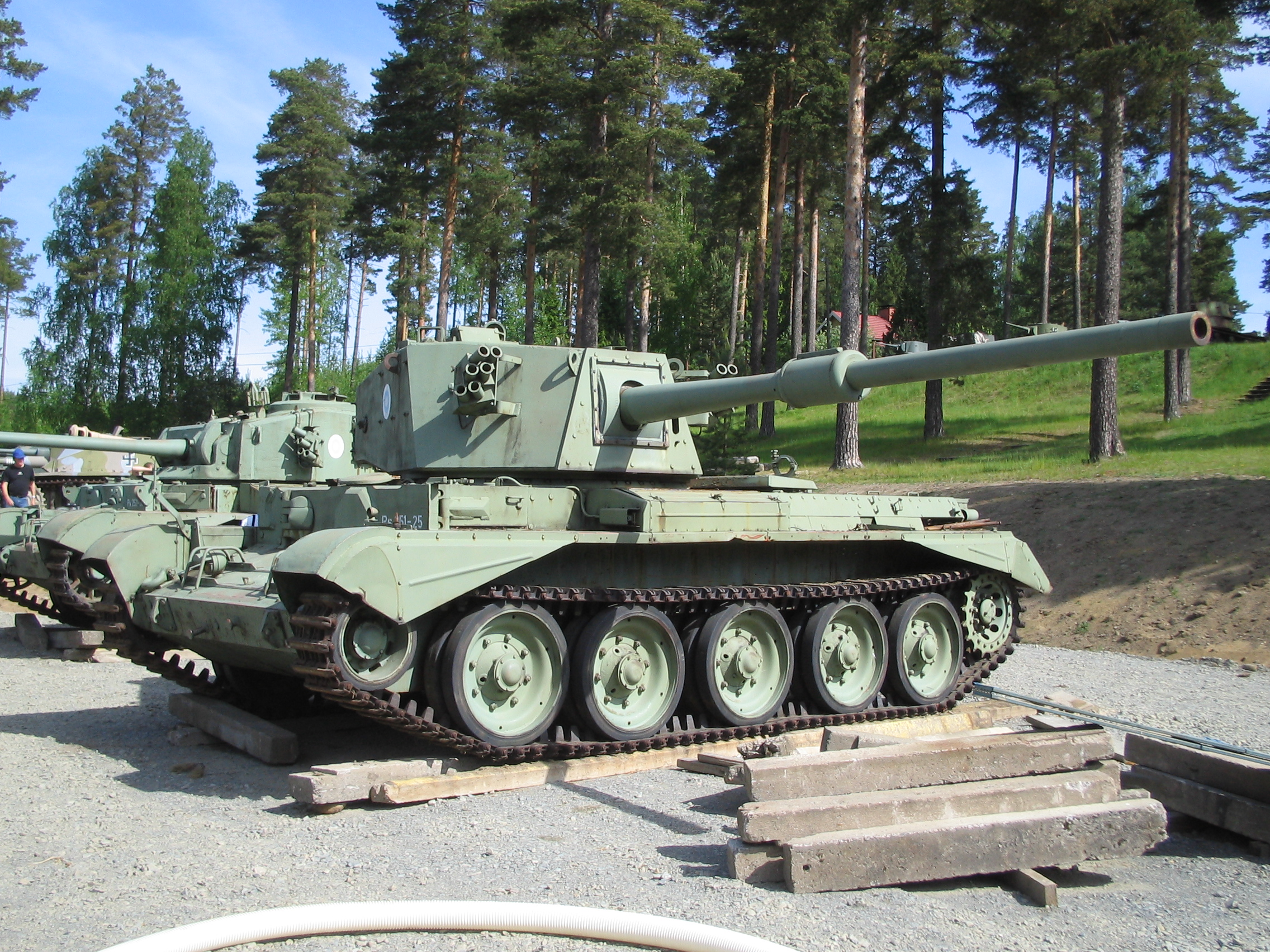 Charioteer Mk VII Model B in Parola tank museum